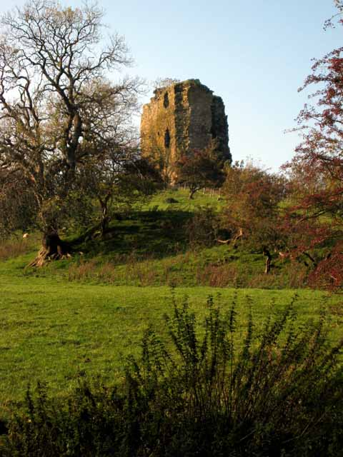 Craigneil Castle, Colmonell This impressive ruin dates from the 13th century, and in its time served as a hiding place of Robert the Bruce, a feudal prison and a place of execution.